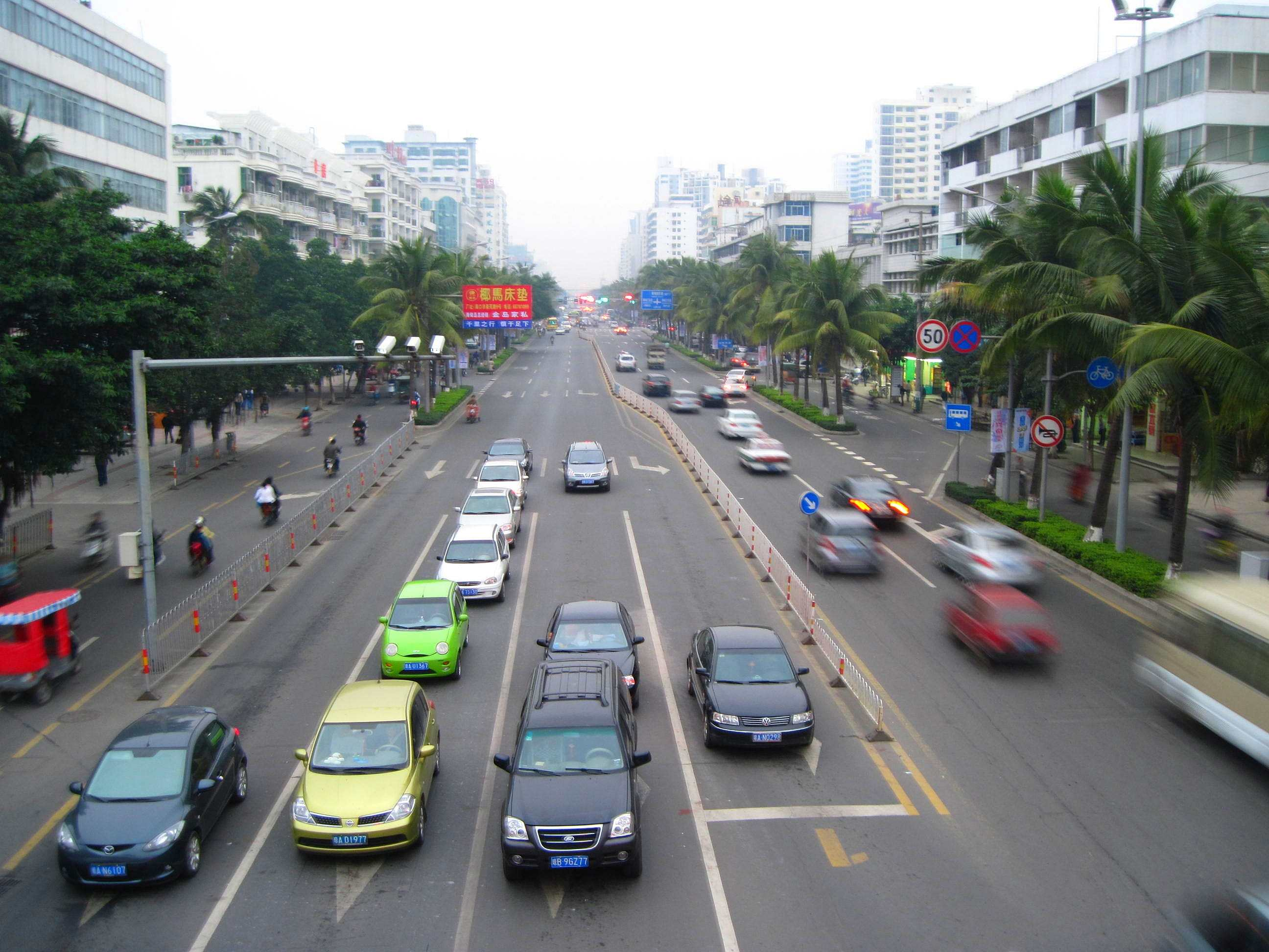 Renmin Dadao at #1 road, facing north, Haidian Island, Haikou, Hainan, China